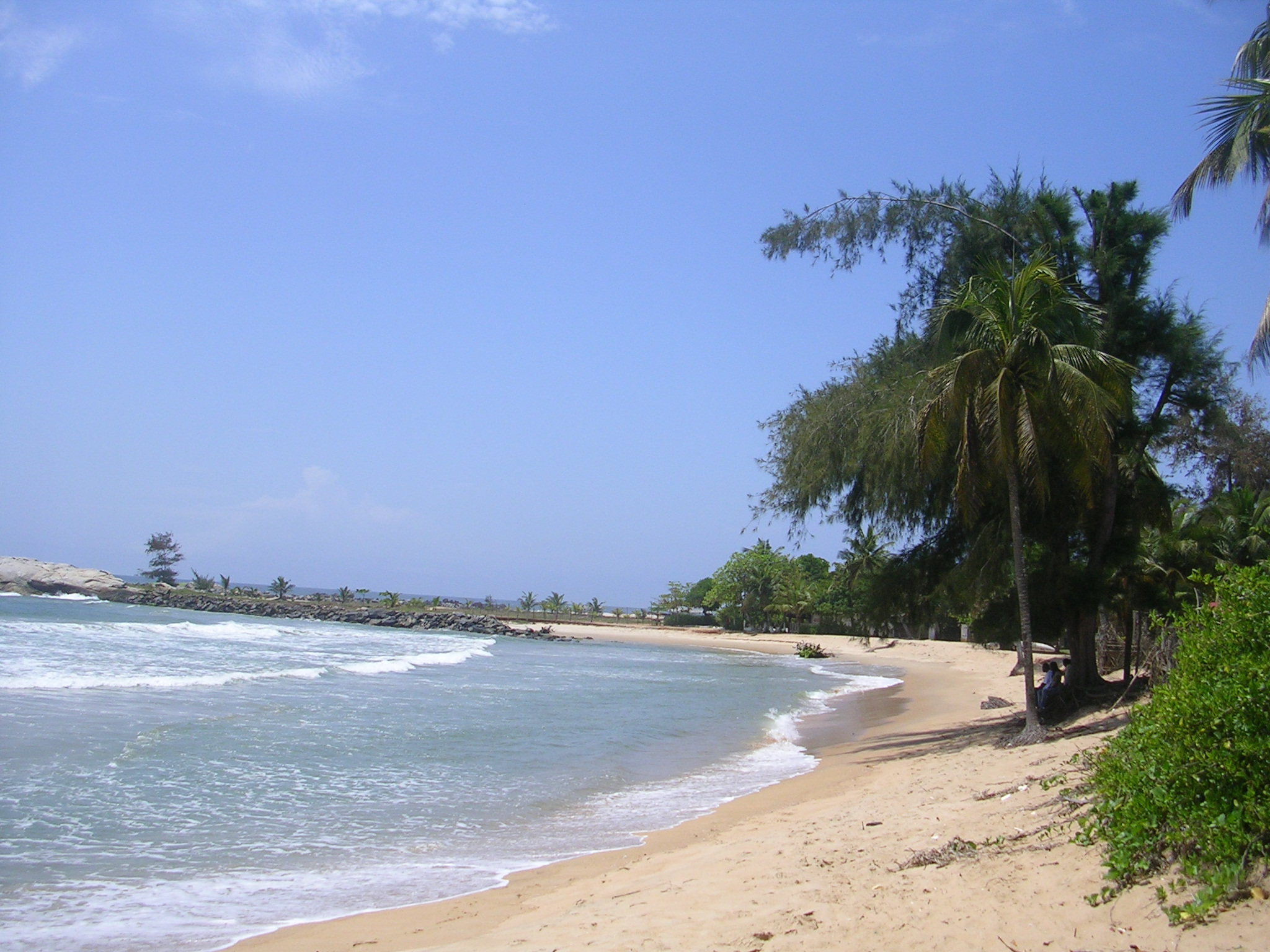 Beach in San Pédro.